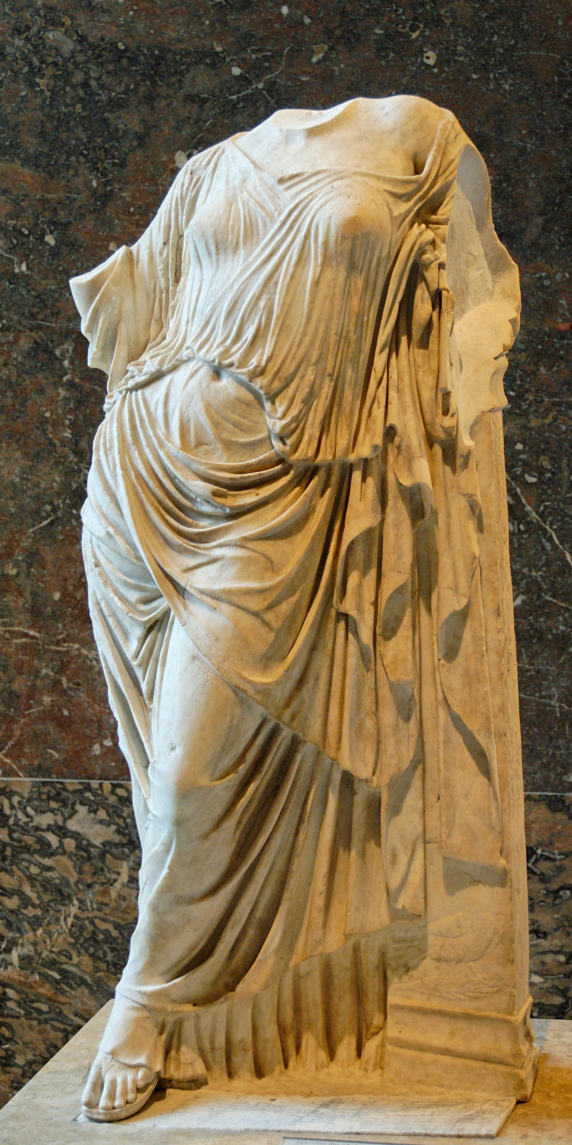 Aphrodite leaning against a pillar. Marble, Roman copy of the 1st–2nd centuries CE after a Greek original of the late 5th century BC. Previously restored as a Thalia.